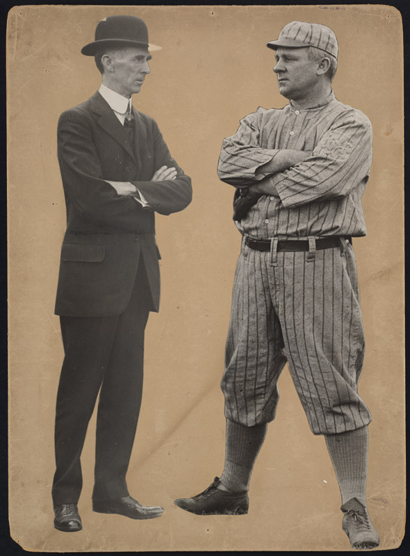 File name: 06_06_000188 Title: Connie Mack and John McGraw Creator/Contributor: Created/Published: Date created: 1913- (approximate) Physical description: 1 photographic print : gelatin silver Description: Cut out photographs of Philadelphia Athletics Manager Connie Mack and New York Giants Manager John McGraw mounted on board. Genre: Photographic prints; Portrait photographs; Gelatin silver prints Subjects: Baseball managers; McGraw, John Joseph, 1873-1934; Mack, Connie, 1862-1956 Notes: McGreevey no. 136 Location: Boston Public Library, Print Department Rights: No known restrictions